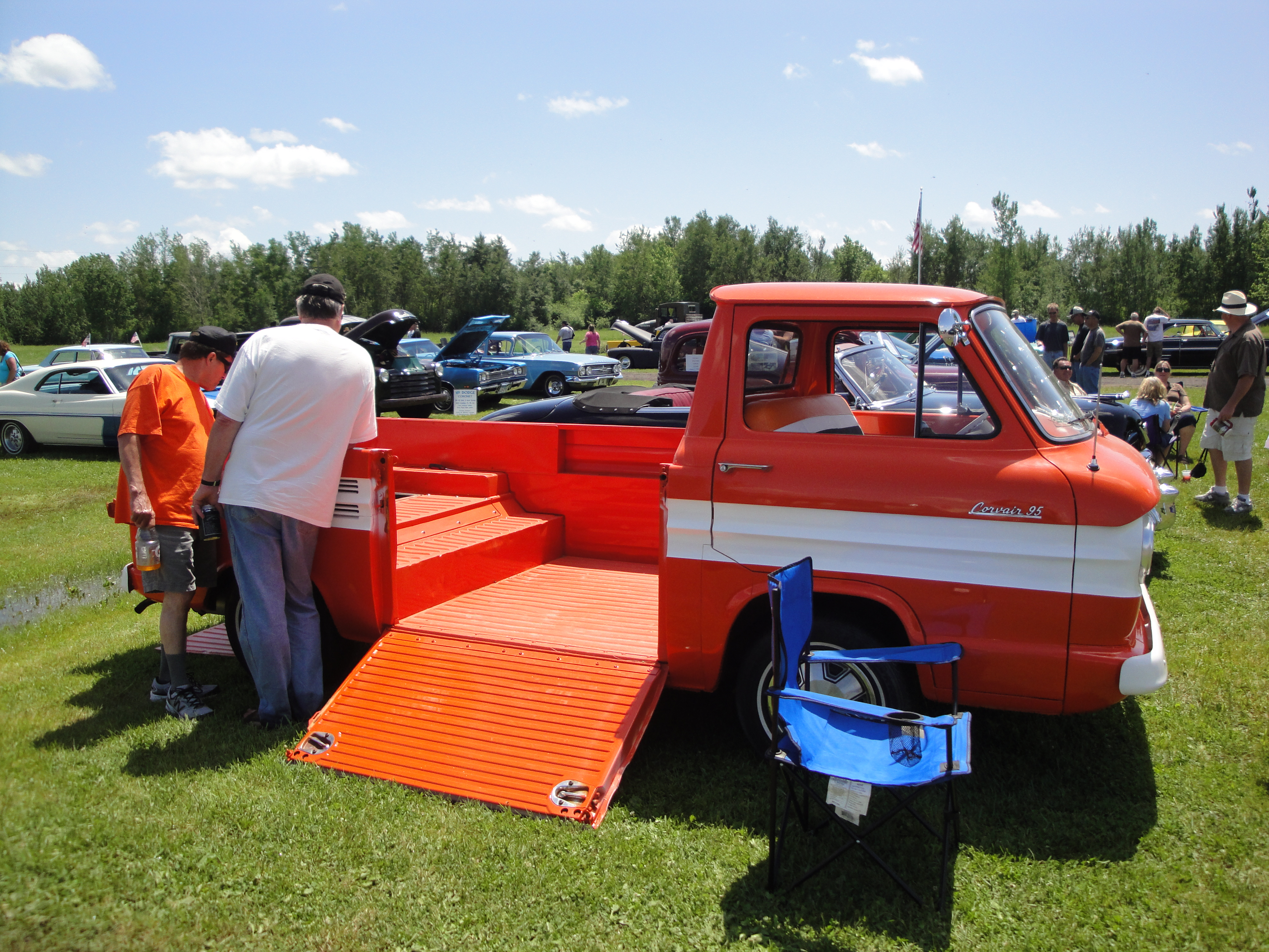 2012 Memorial Day Car Show Hosted by the North Star Chapter of the Studebaker Drivers Club